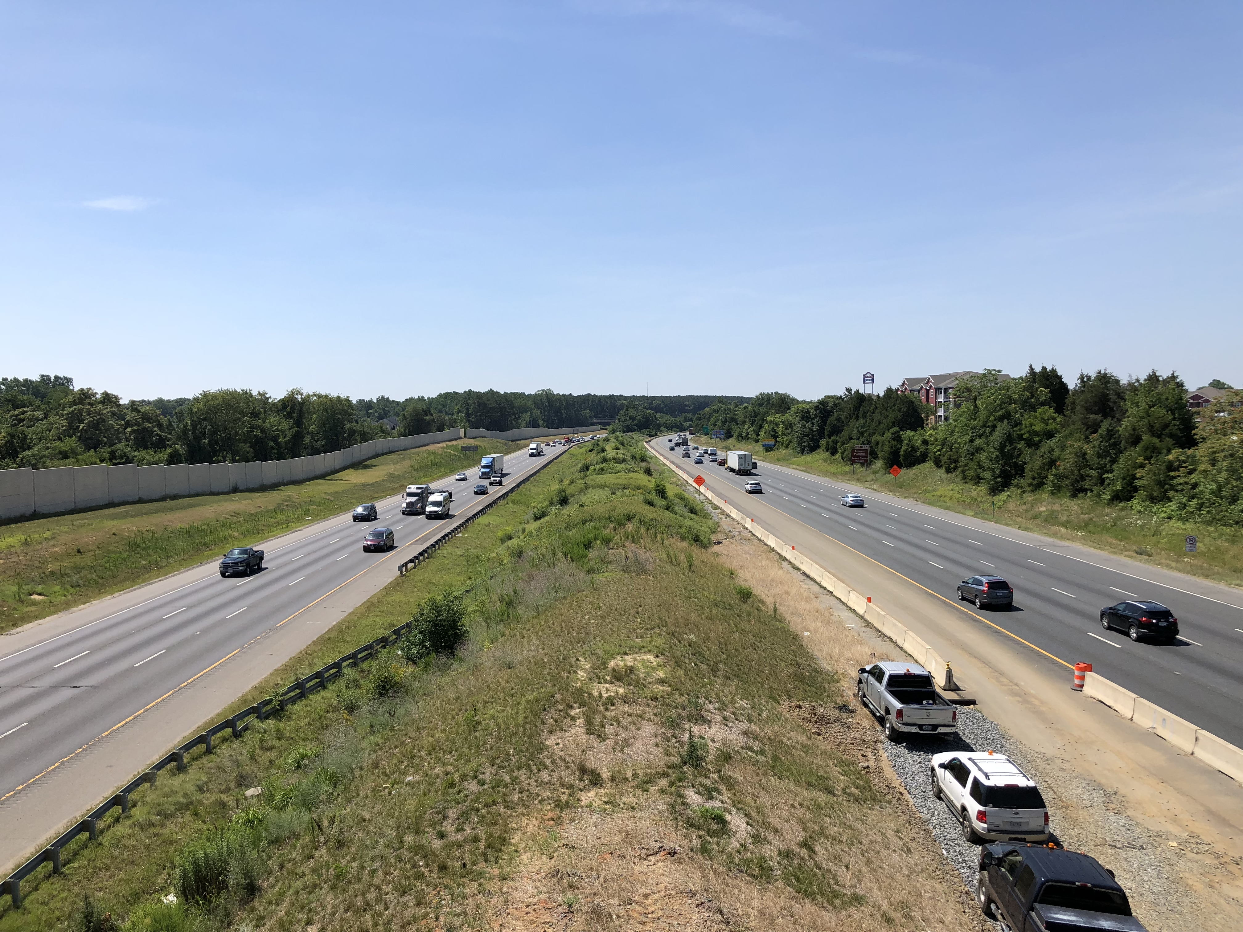 View south along Interstate 95 and U.S. Route 17 from the overpass for Fall Hill Avenue in Fredericksburg, Virginia